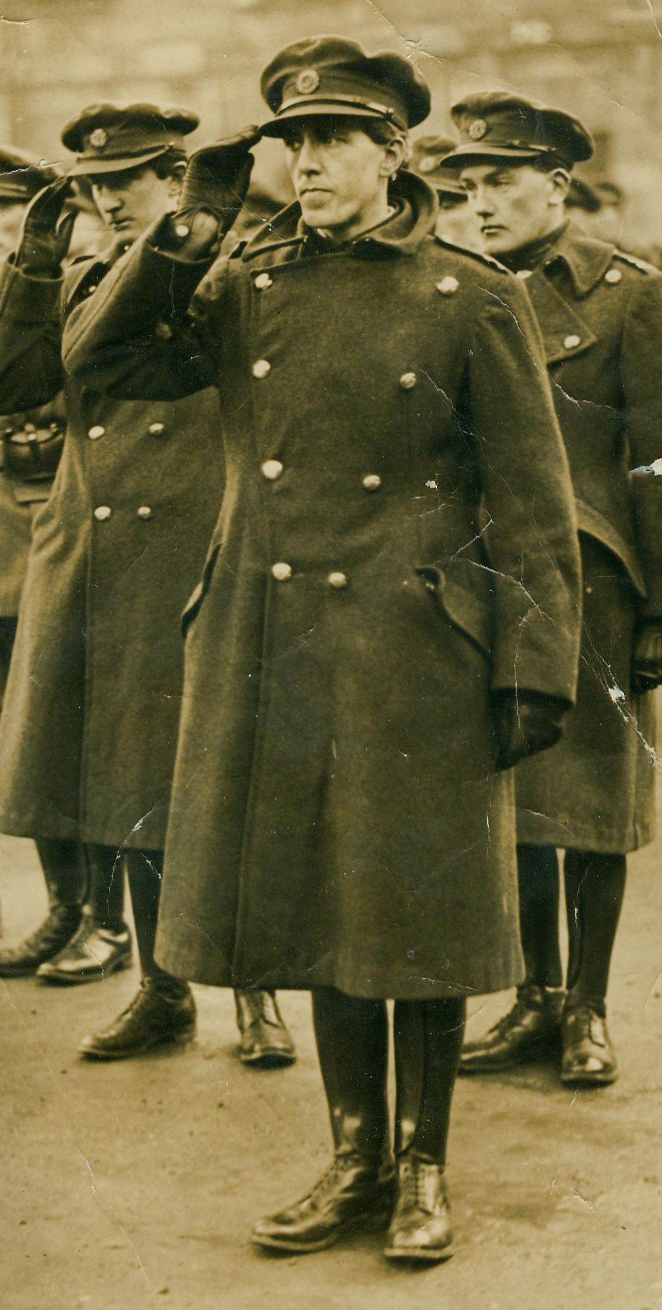 Sean Mac Mahon